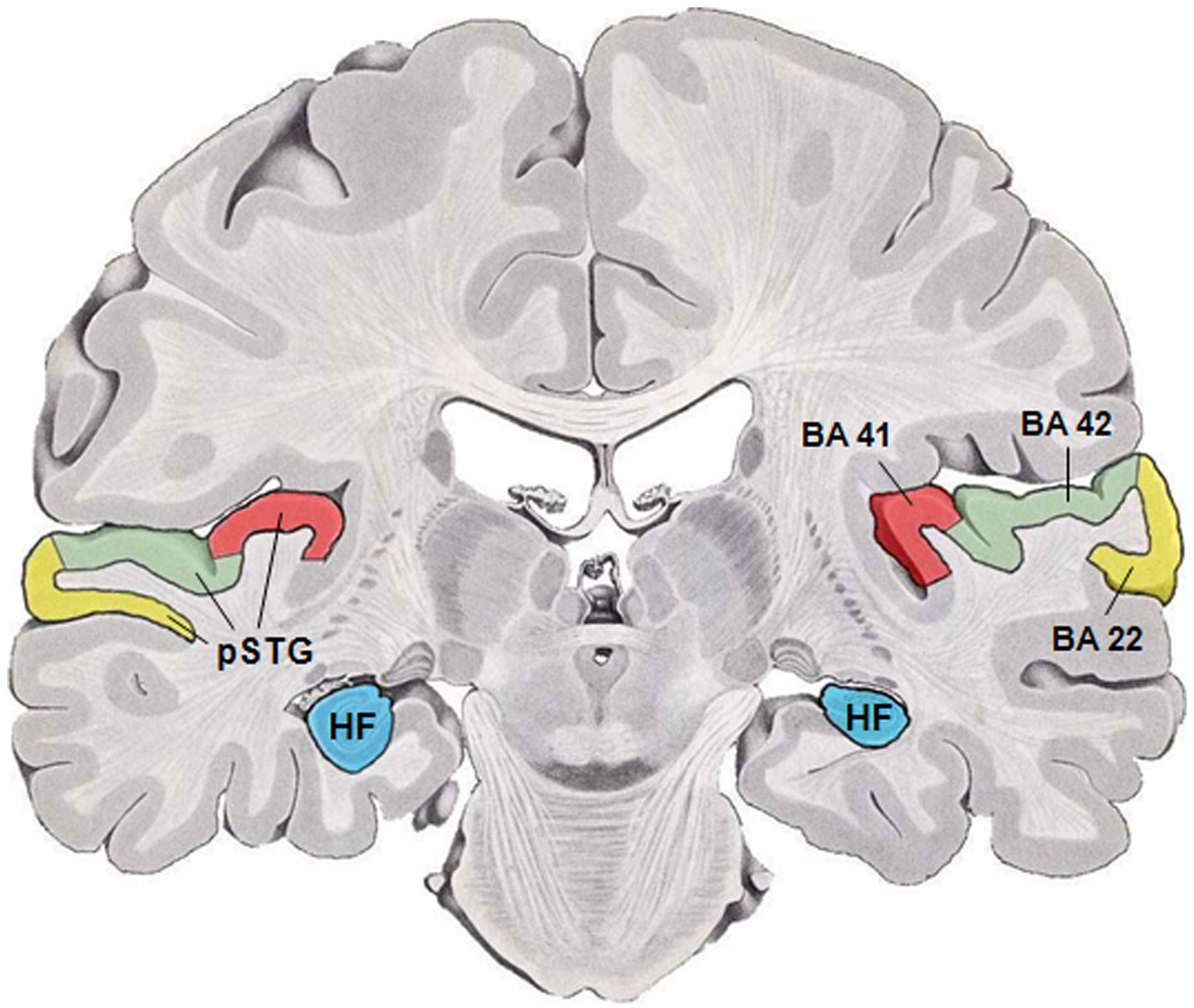 Temporal lobe areas : posterior superior temporal gyrus (pSTG) and intermediate rostrocaudal hippocampal formation (HF).